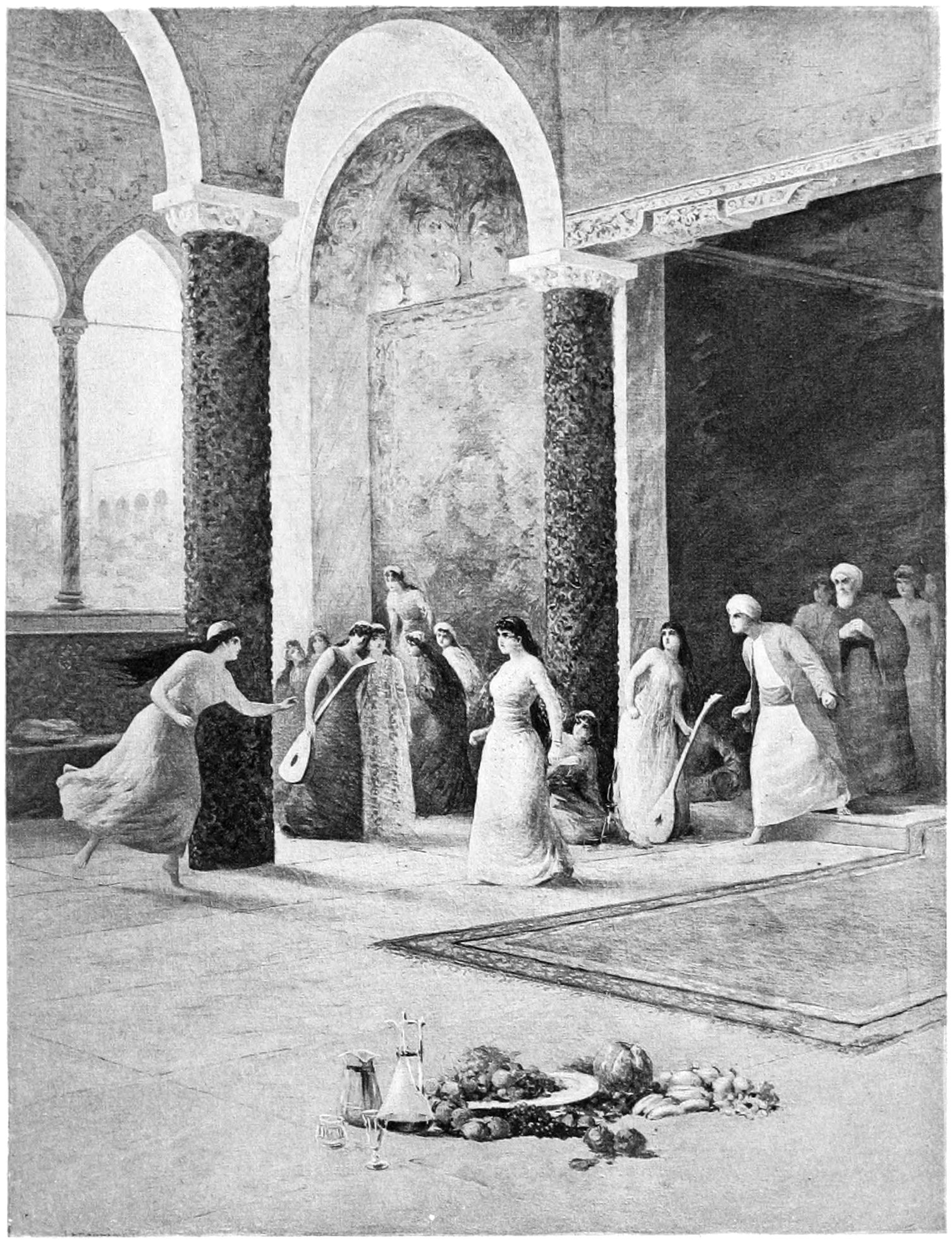 Tale of Ali bin Bakkar and of Shams al-Nahar — While they were thus enjoying themselves, lo! up came a damsel, trembling for fear and said, ‘O my Lady! The Commander of the Faithful’s eunuchs are at the door.’